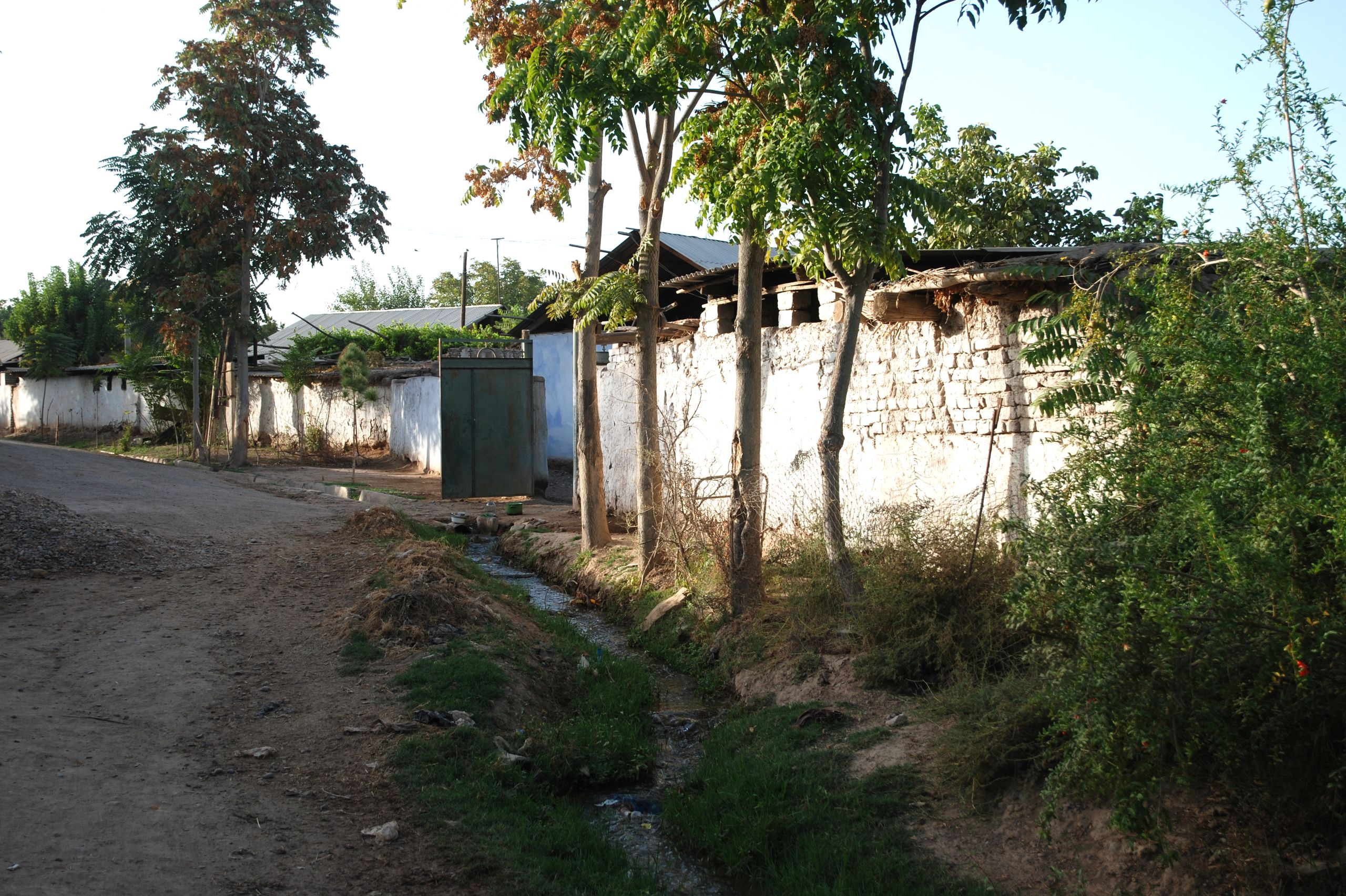 Shahritus (Shaartuz)